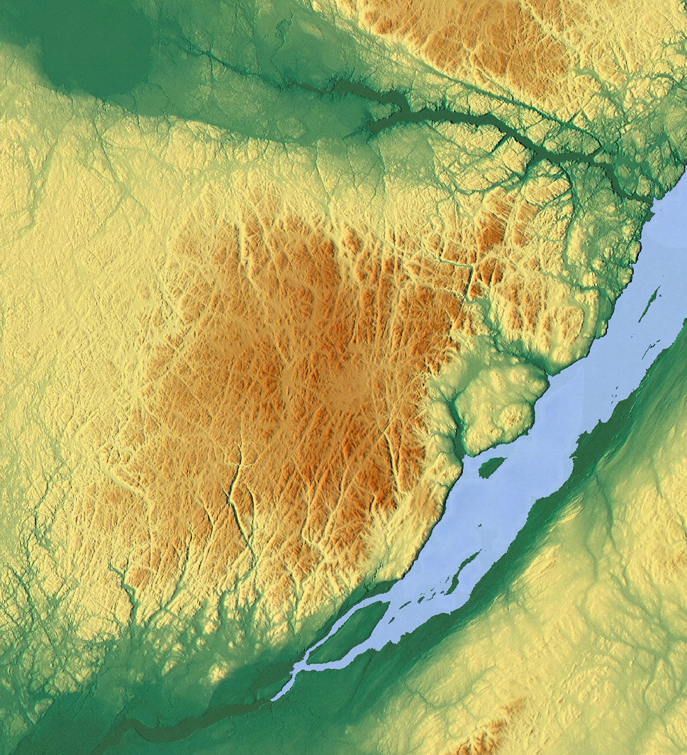 Rendered landform configuration of the Appalachian mountains and the US east coast region by . DEM data derived from the Shuttle Radar Topography Mission (SRTM).